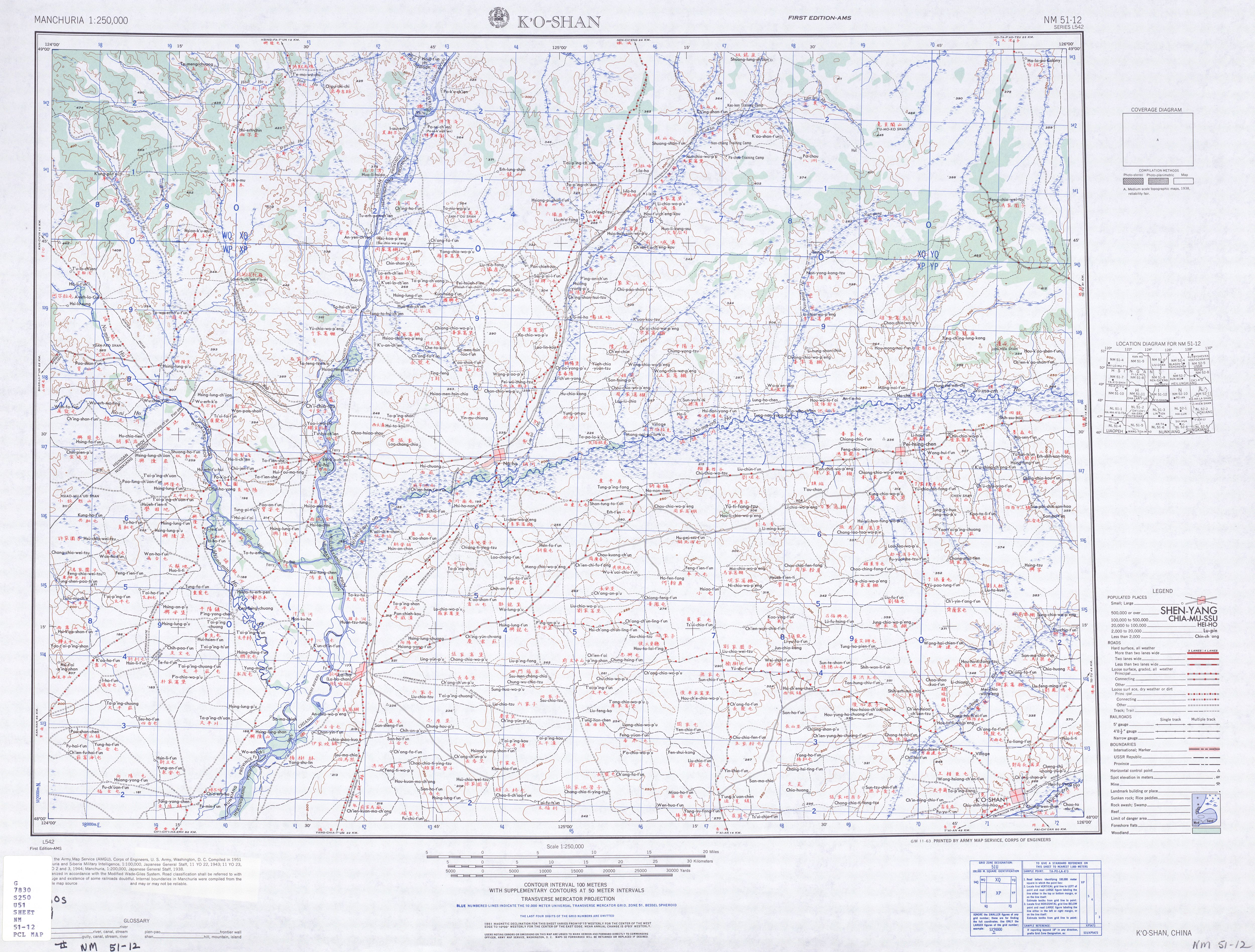 Manchuria AMS Topographic Maps